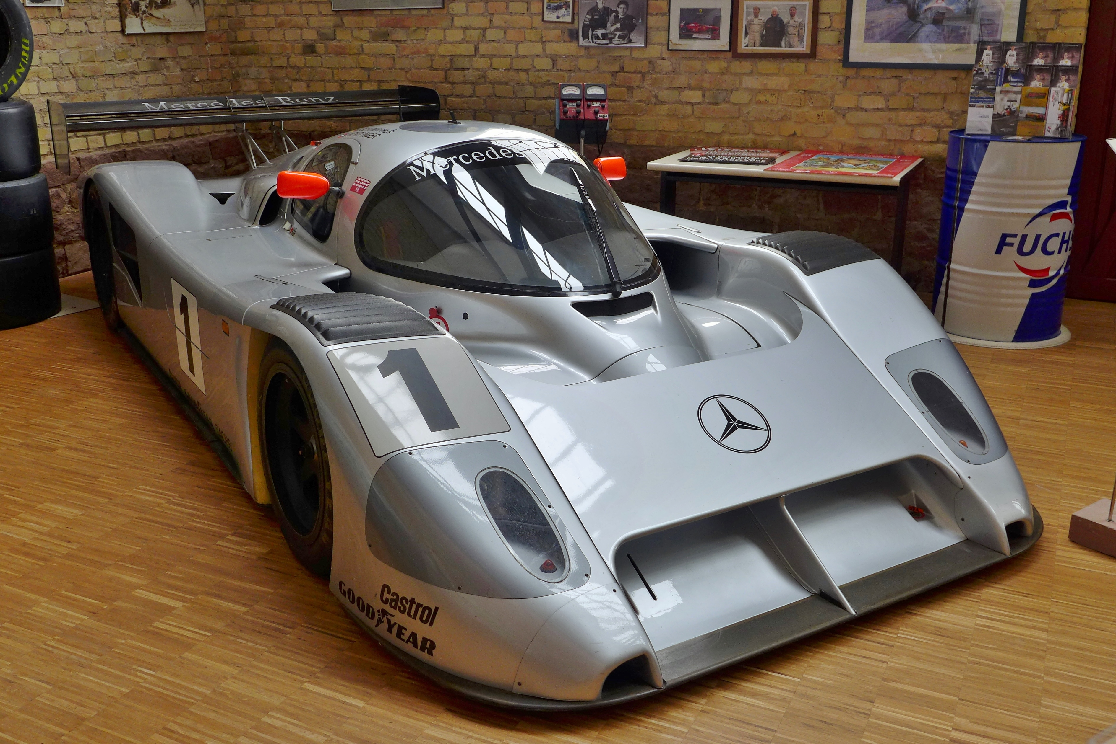 A 1991 Sauber Mercedes-Benz C291, on display at the Automuseum Dr. Carl Benz, Ladenburg, Baden-Württemberg, Germany